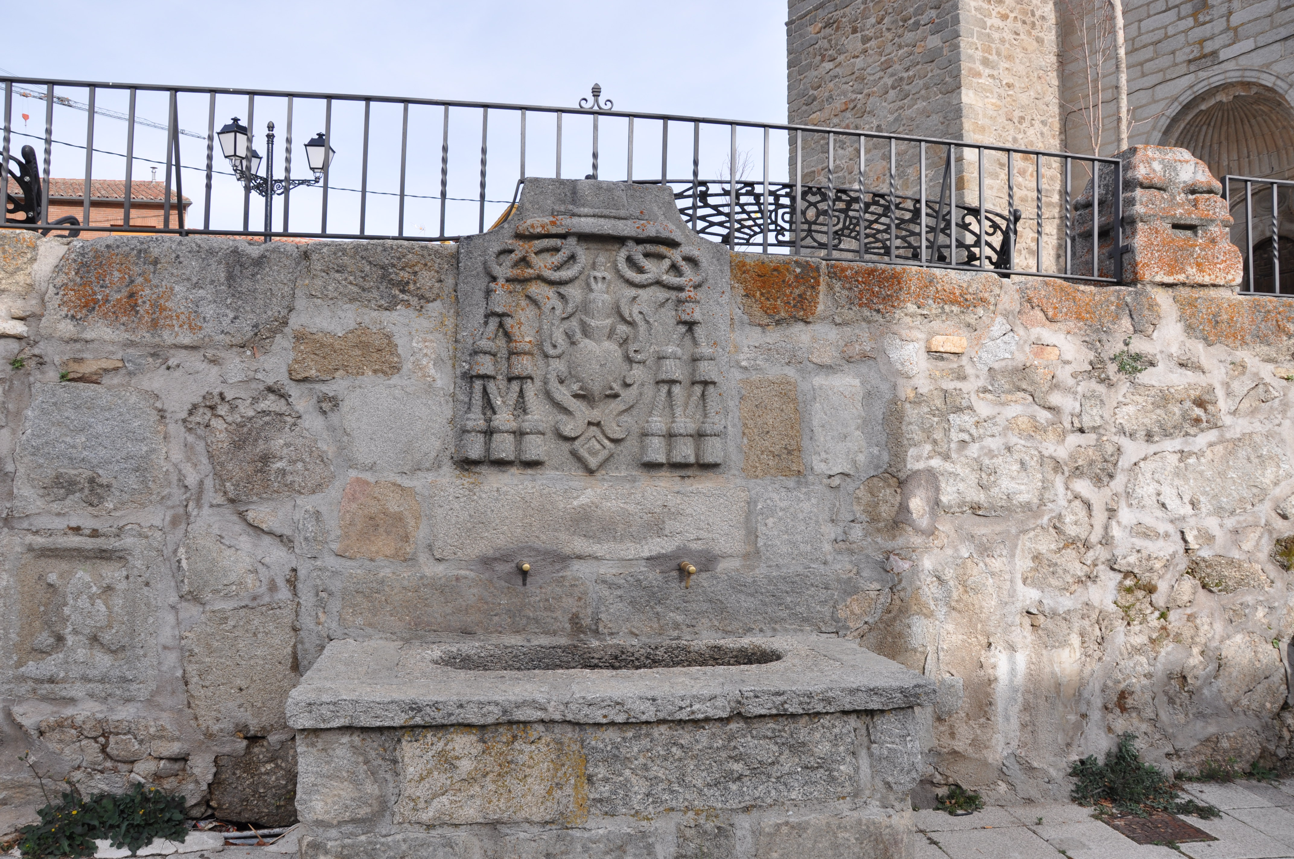 Coats of arms of order of St. Augustin at Monastery of Nuestra Señora del Risco, brought to Villatoro, Ávila, Spain